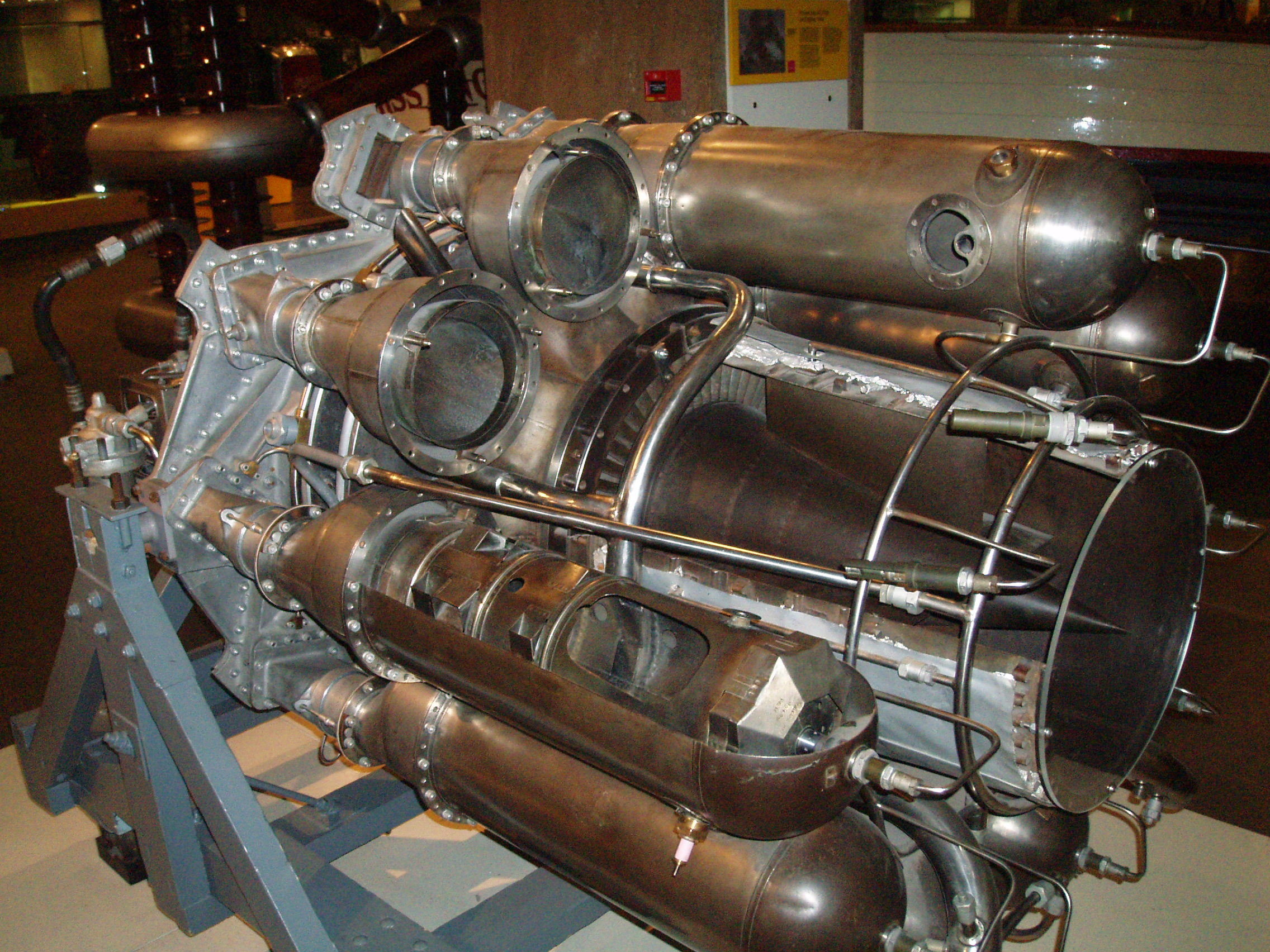 Power Jets W.2 engine cutaway